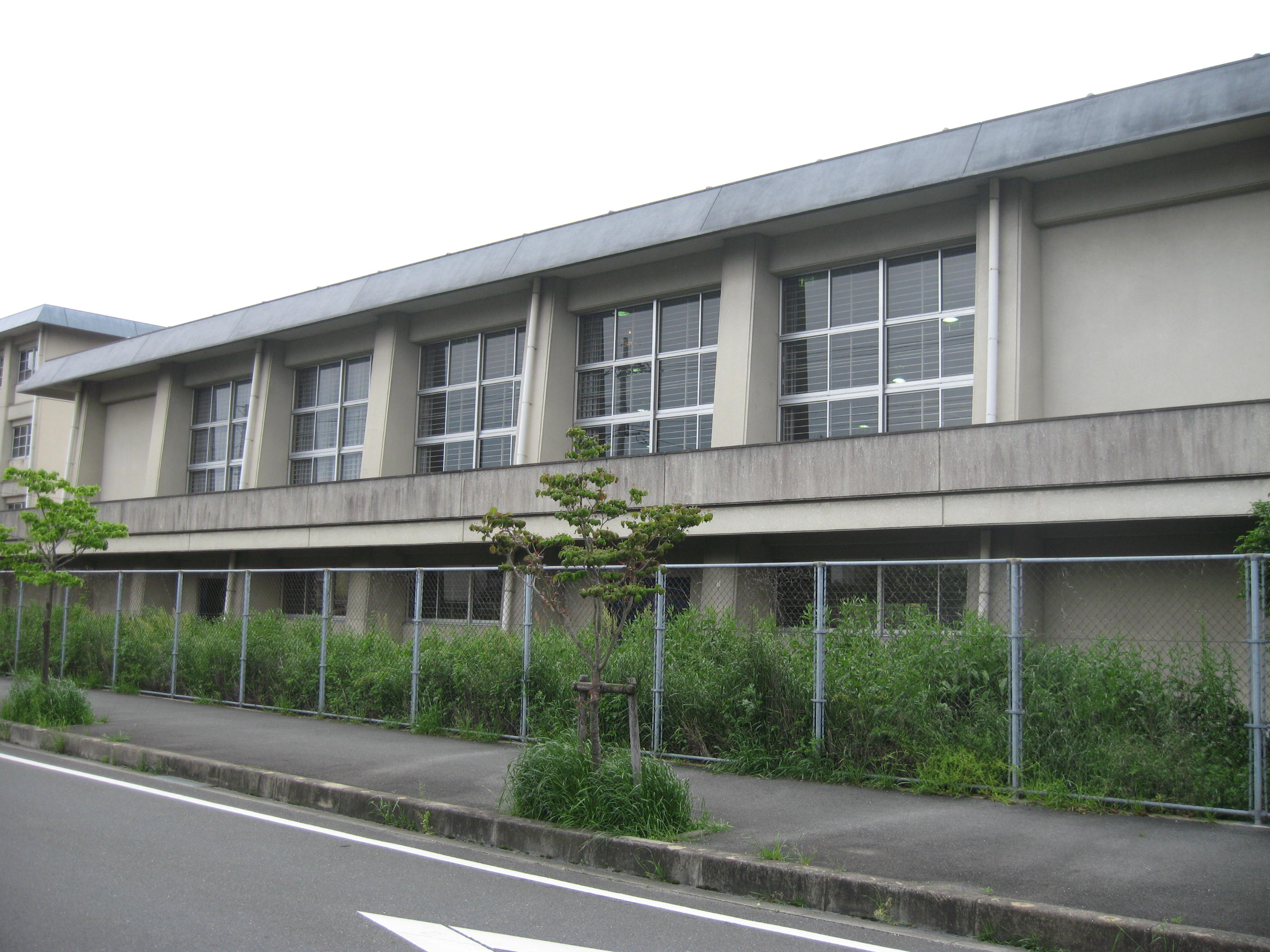 Yawata-shiritsu_Otokoyama_junior_high_school.NO.3.JPG